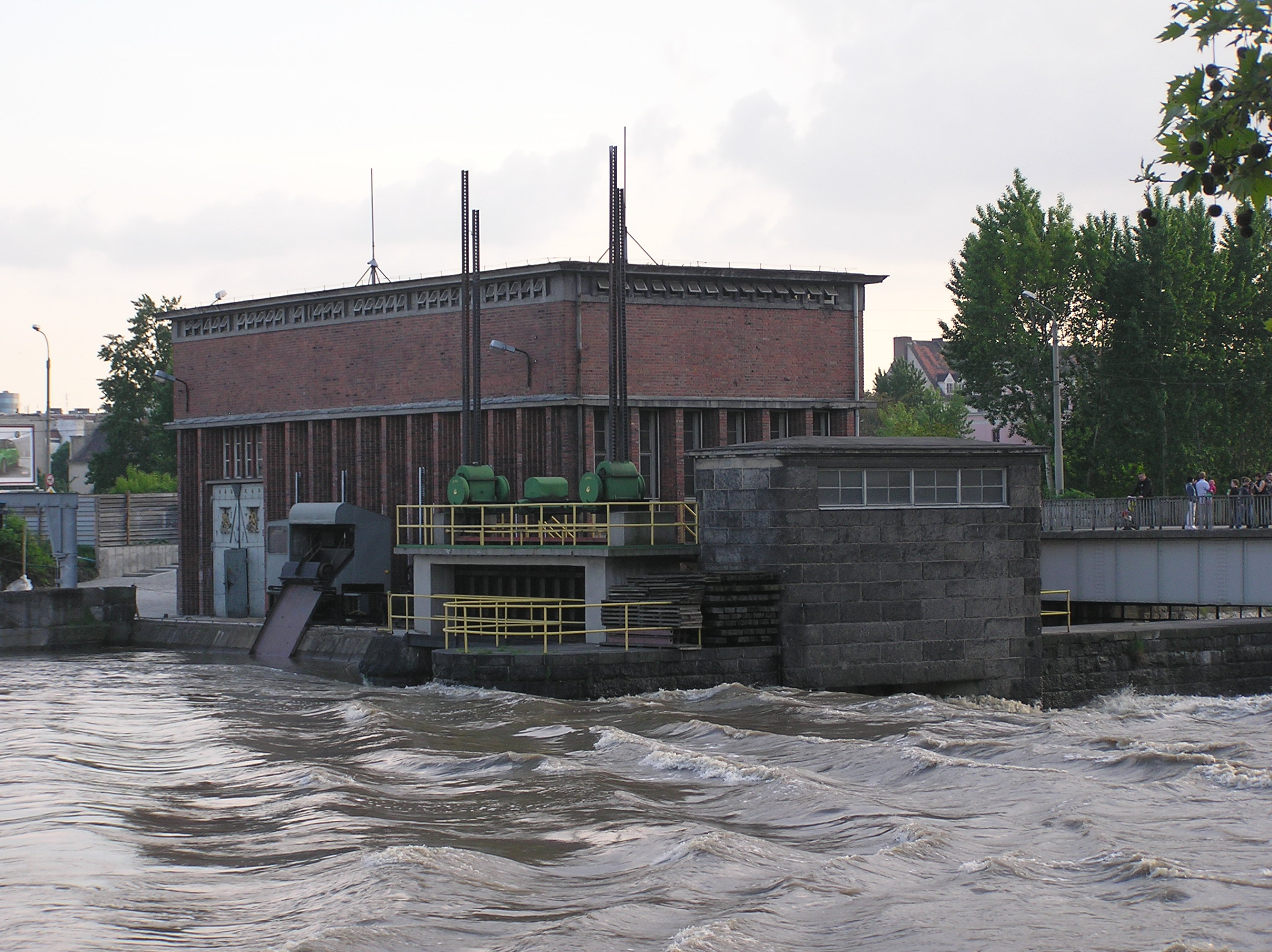 Wrocław, weir of northern hydroelectric plant in Wrocław